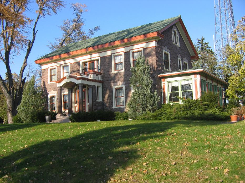 Photograph of the Charles Samuel Richter House, shot in October 2008